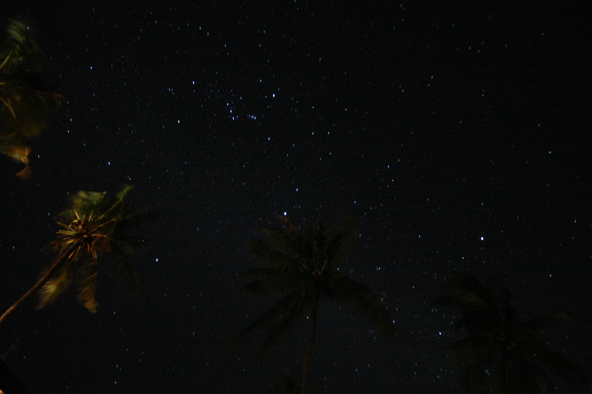 Image of the winter constellations as viewed from the tropics (Bali). The image is taken with a 10mm ultra wideangle lens (90 degrees field angle) on a Canon EOS 40 camera. All stars but Capella are on the image and Canopus as well (north is left).